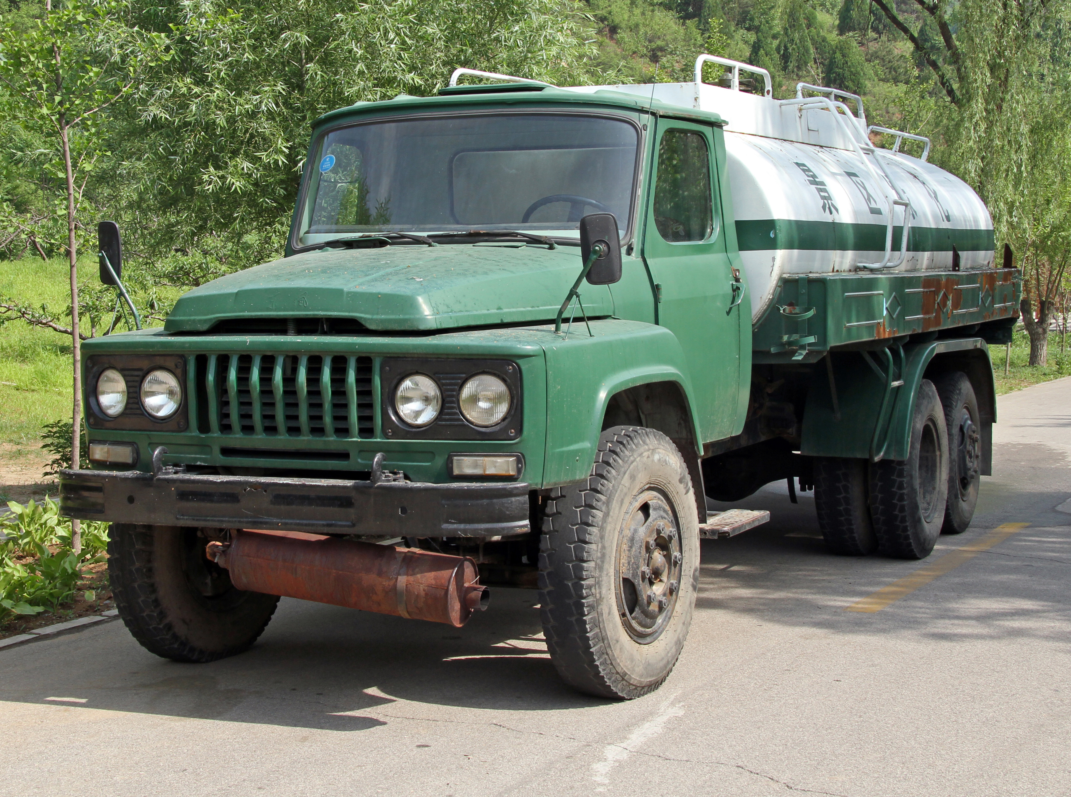 A 1984-1990 Dongfeng EQ155-1 (first facelift version of the original 1978 truck, with a single-piece windshield). For a history of the EQ140 see here and here. Photographed on the road between Jingshaling and Simatai. The EQ155 is the 6x2 version of the more common EQ140 truck, which is still in production today.